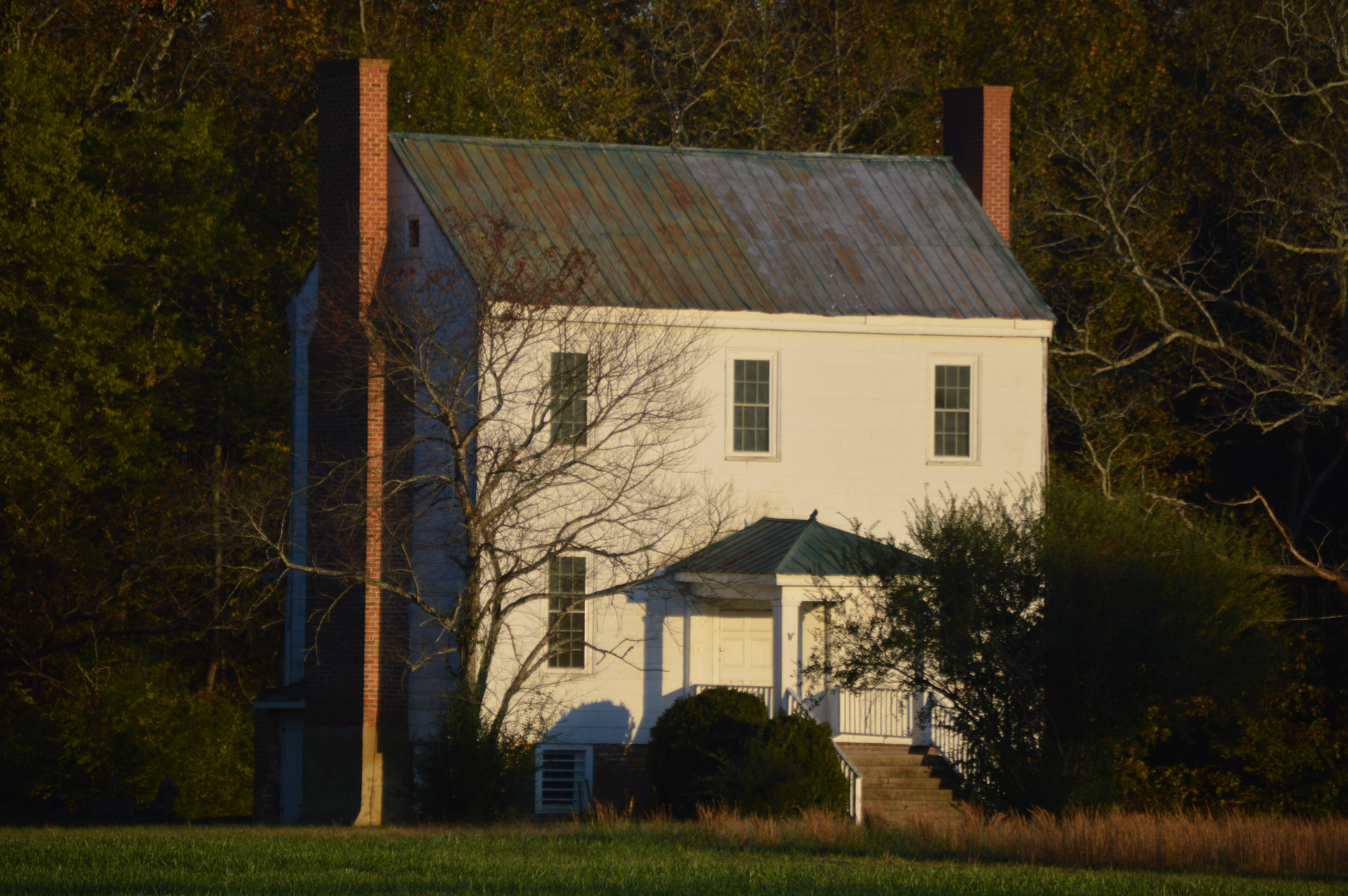 Front and northern side of the Weaver House, located on Otterdam Road north of Emporia in Greensville County, Virginia, United States. Built in 1838, it is listed on the National Register of Historic Places.